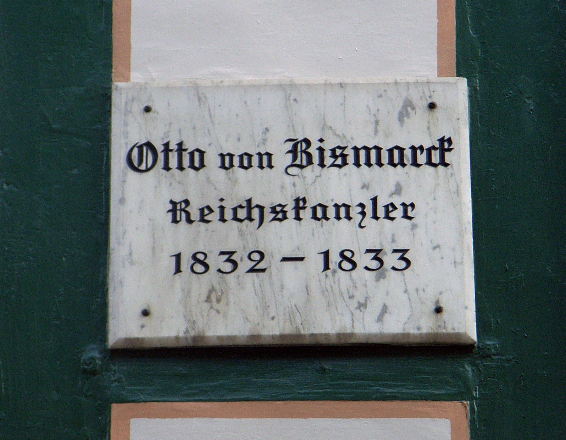 This image shows a informationsign in Göttigen.